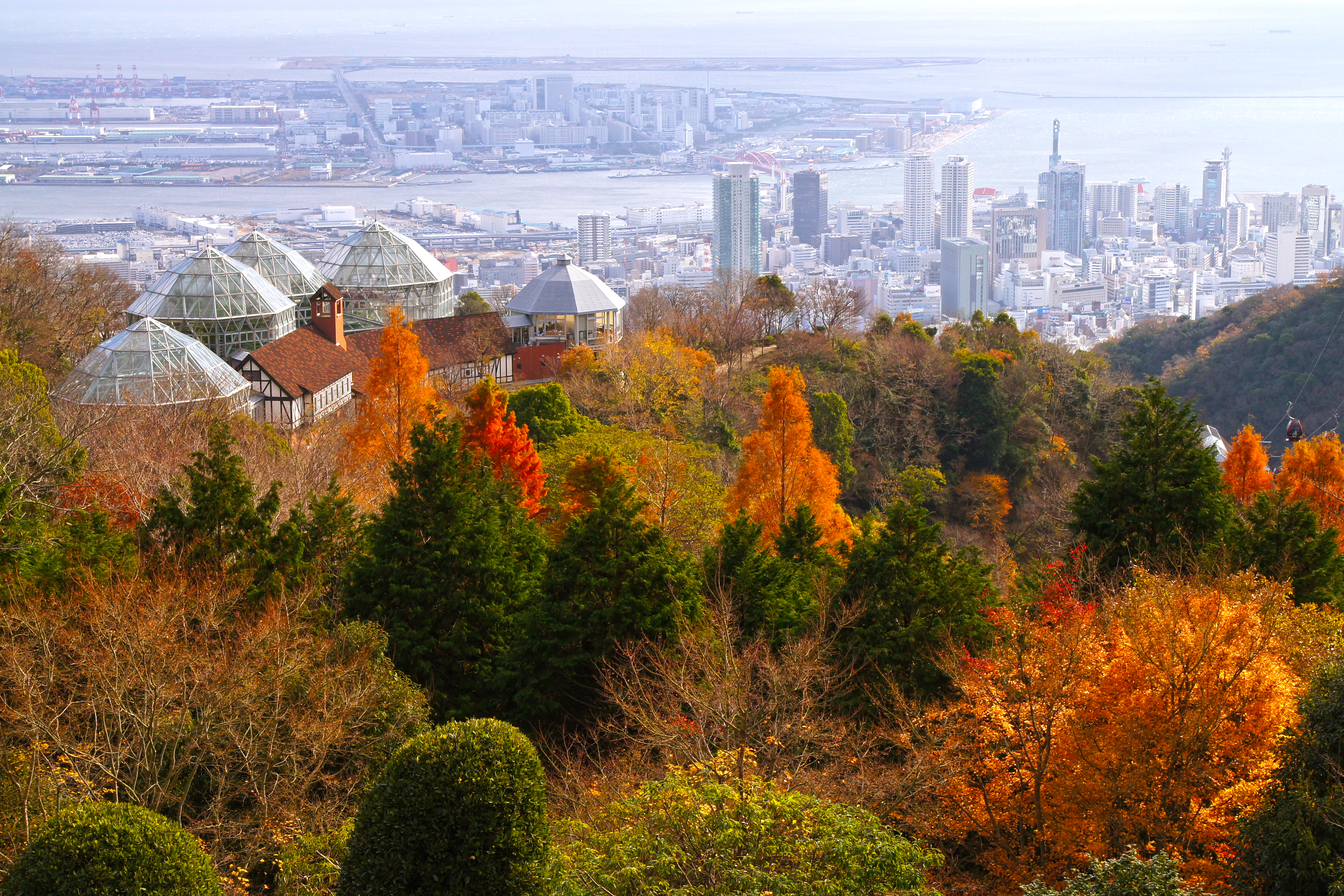 Nunobiki Herb Garden in Kobe, Hyogo prefecture, Japan.